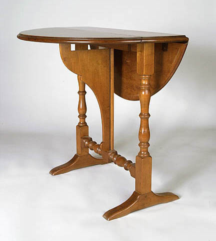 Photo courtesy of Eleanor Roosevelt National Historic Site, National Park Service, U.S. Department of the Interior.